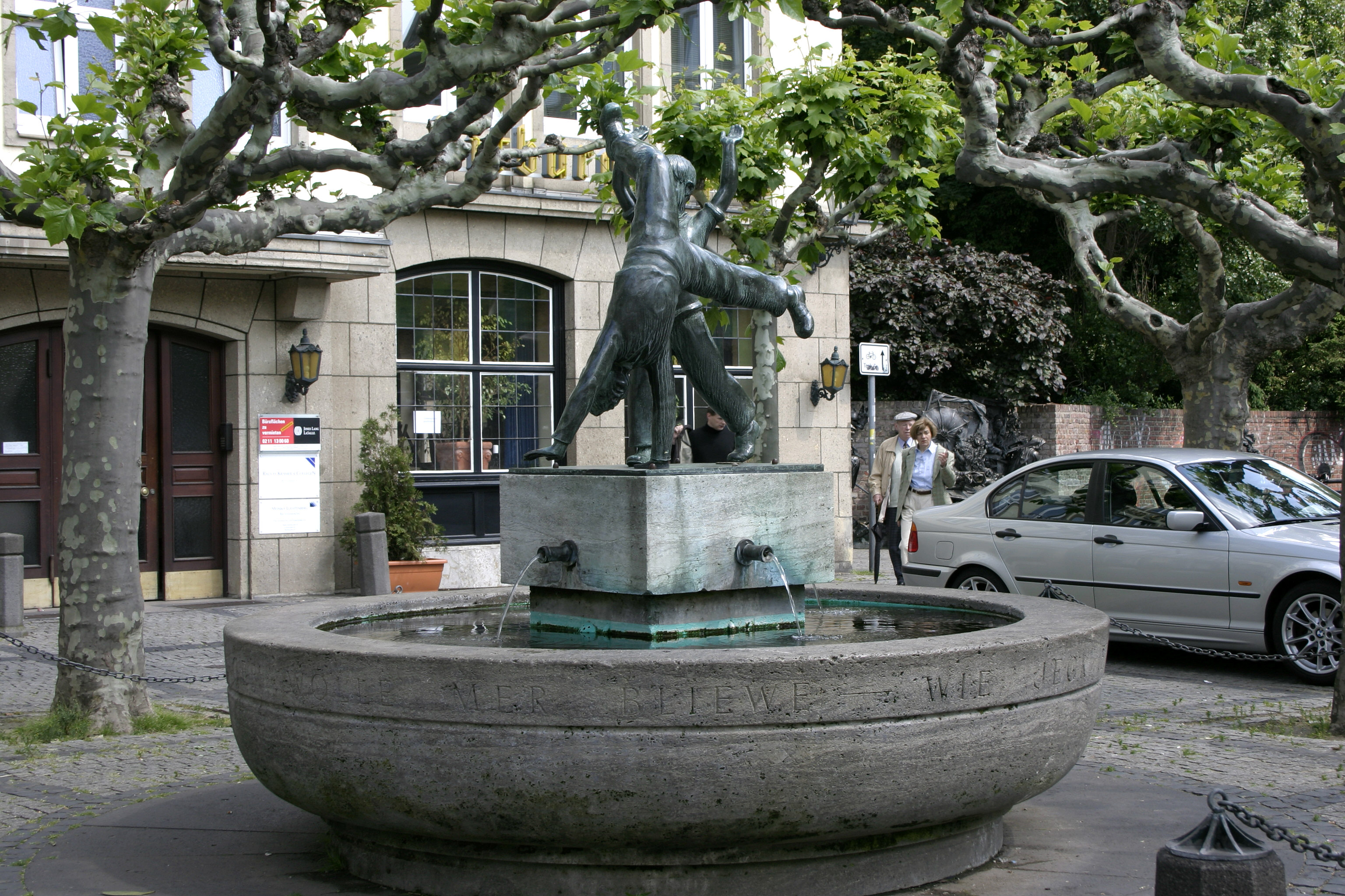 Düsseldorf - Radschlägerbrunnen